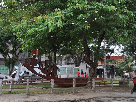 SUD Salon Urbain de Douala 2010. Triennial festival promoted by doual'art.